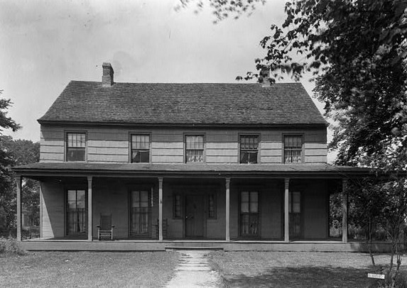 Nat Conklin House, 280 Deer Park Avenue, Babylon (Suffolk County, New York) cropped This file comes from the Historic American Buildings Survey (HABS), Historic American Engineering Record (HAER) or Historic American Landscapes Survey (HALS). These are programs of the National Park Service established for the purpose of documenting historic places. Records consist of measured drawings, archival photographs, and written reports. When reusing please credit: Library of Congress, Prints & Photographs Division, NY,52-BAB,1-1 This tag does not indicate the copyright status of the attached work. A normal copyright tag is still required. See Commons:Licensing for more information. This work is in the public domain in the United States because it is a work prepared by an officer or employee of the United States Government as part of that person’s official duties under the terms of Title 17, Chapter 1, Section 105 of the US Code. See Copyright. Note: This only applies to original works of the Federal Government and not to the work of any individual U.S. state, territory, commonwealth, county, municipality, or any other subdivision. This template also does not apply to postage stamp designs published by the United States Postal Service since 1978. (See § 313.6(C)(1) of Compendium of U.S. Copyright Office Practices). It also does not apply to certain US coins; see The US Mint Terms of Use. This file has been identified as being free of known restrictions under copyright law, including all related and neighboring rights. Object location40° 42′ 02″ N, 73° 19′ 23″ W